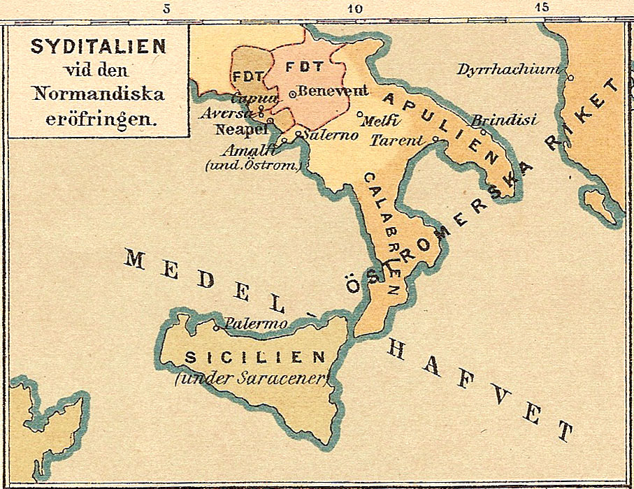 Historic map (swedish) of south Italy during the normand invasions.